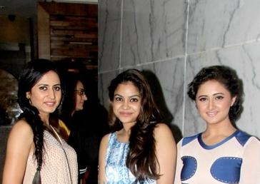 Sargun Mehta at 100 episodes success bash of Comedy Nights with Kapil